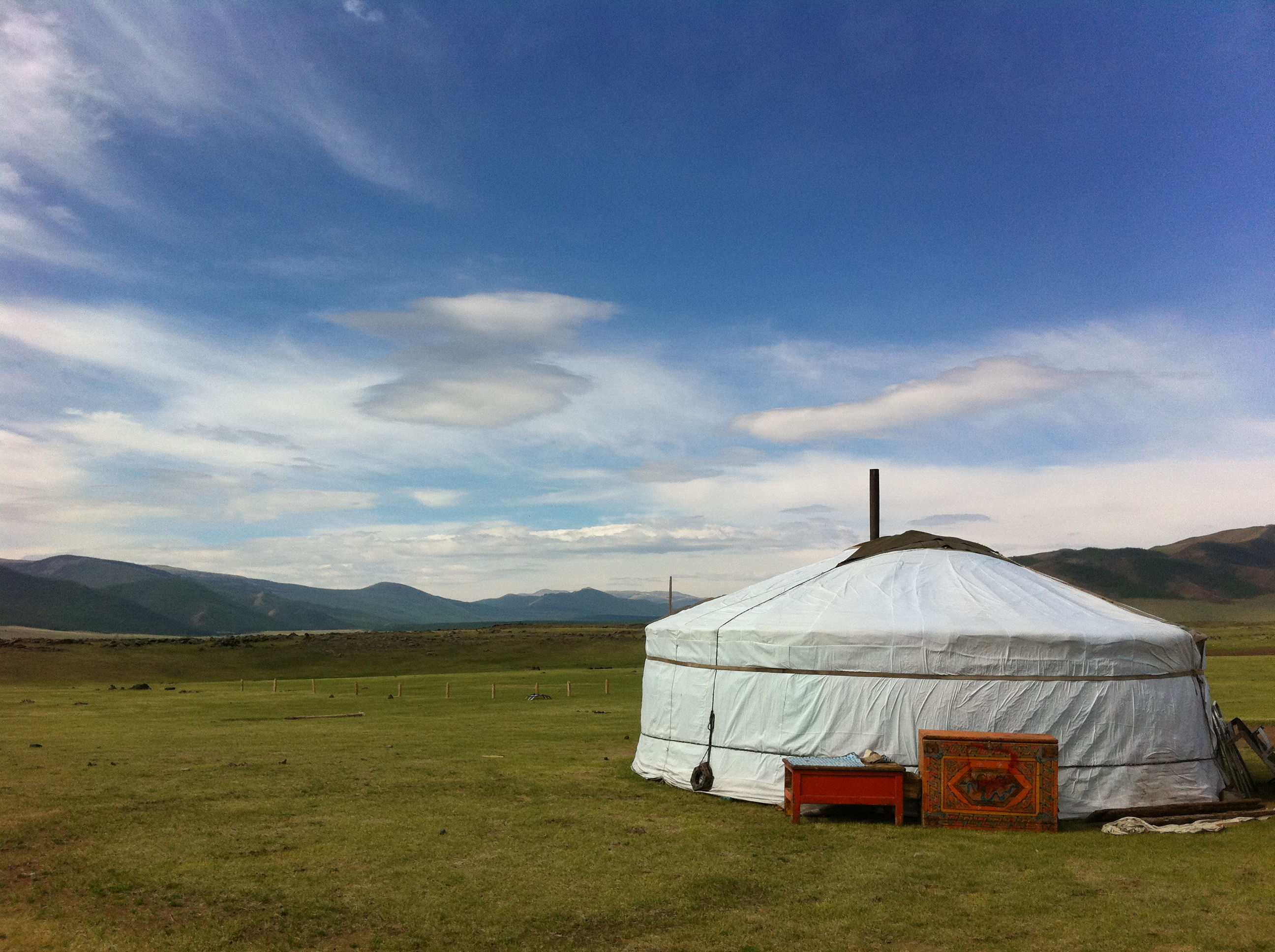 A mongol yurt in Orkhon_Valley